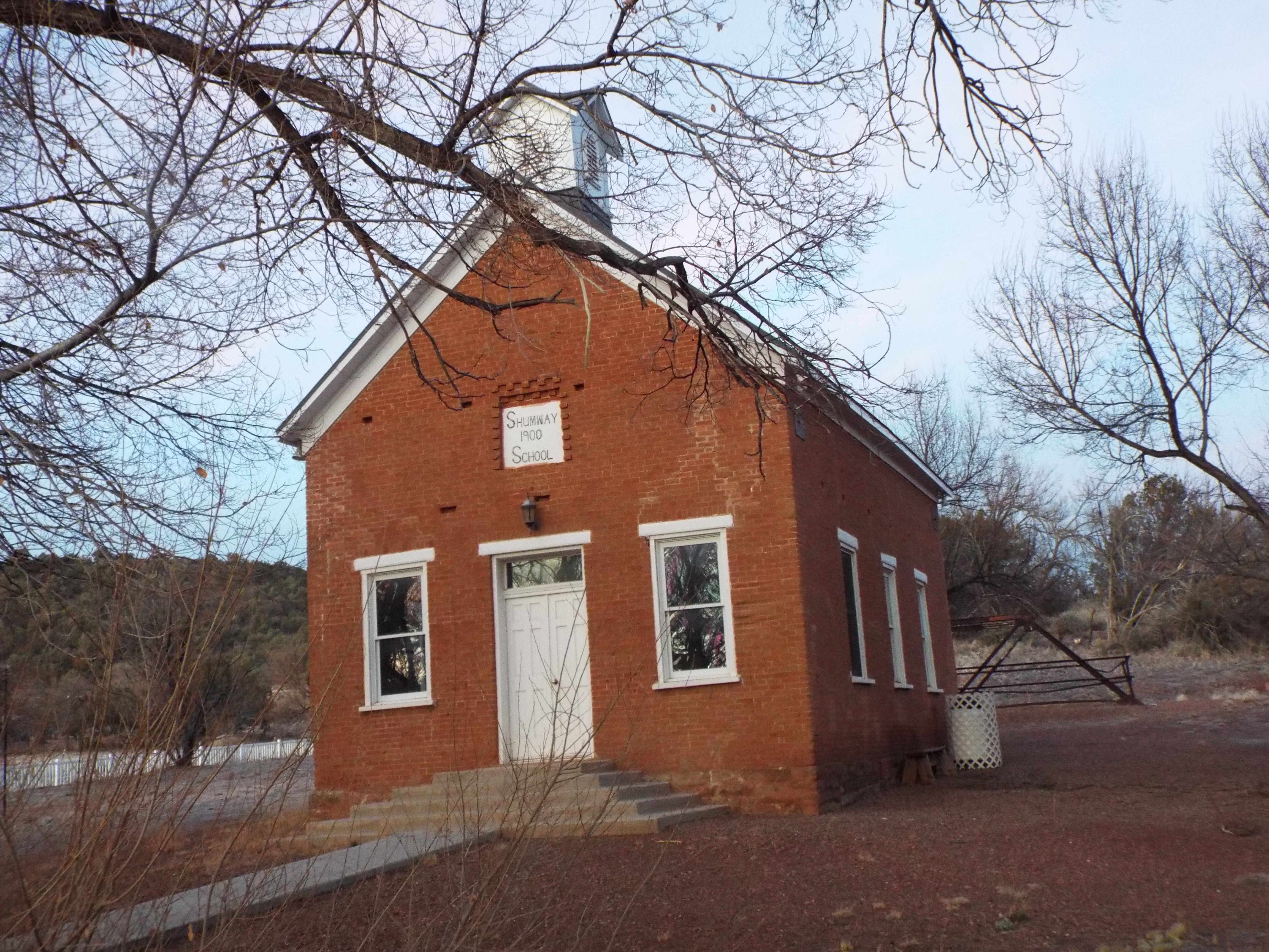 The NRHP Shumway Schoolhouse-1900 in Arizona